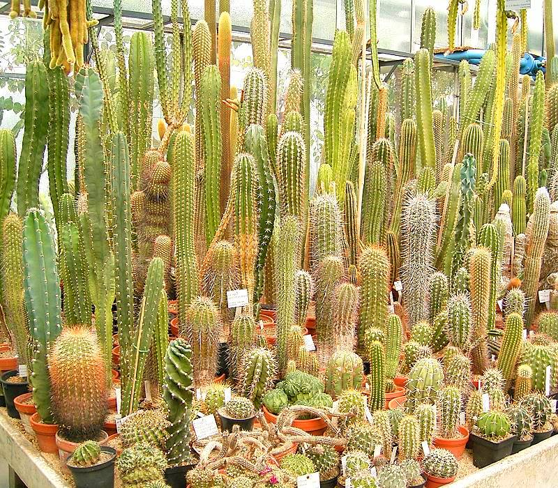 Cactus collection, BG Bochum, Germany